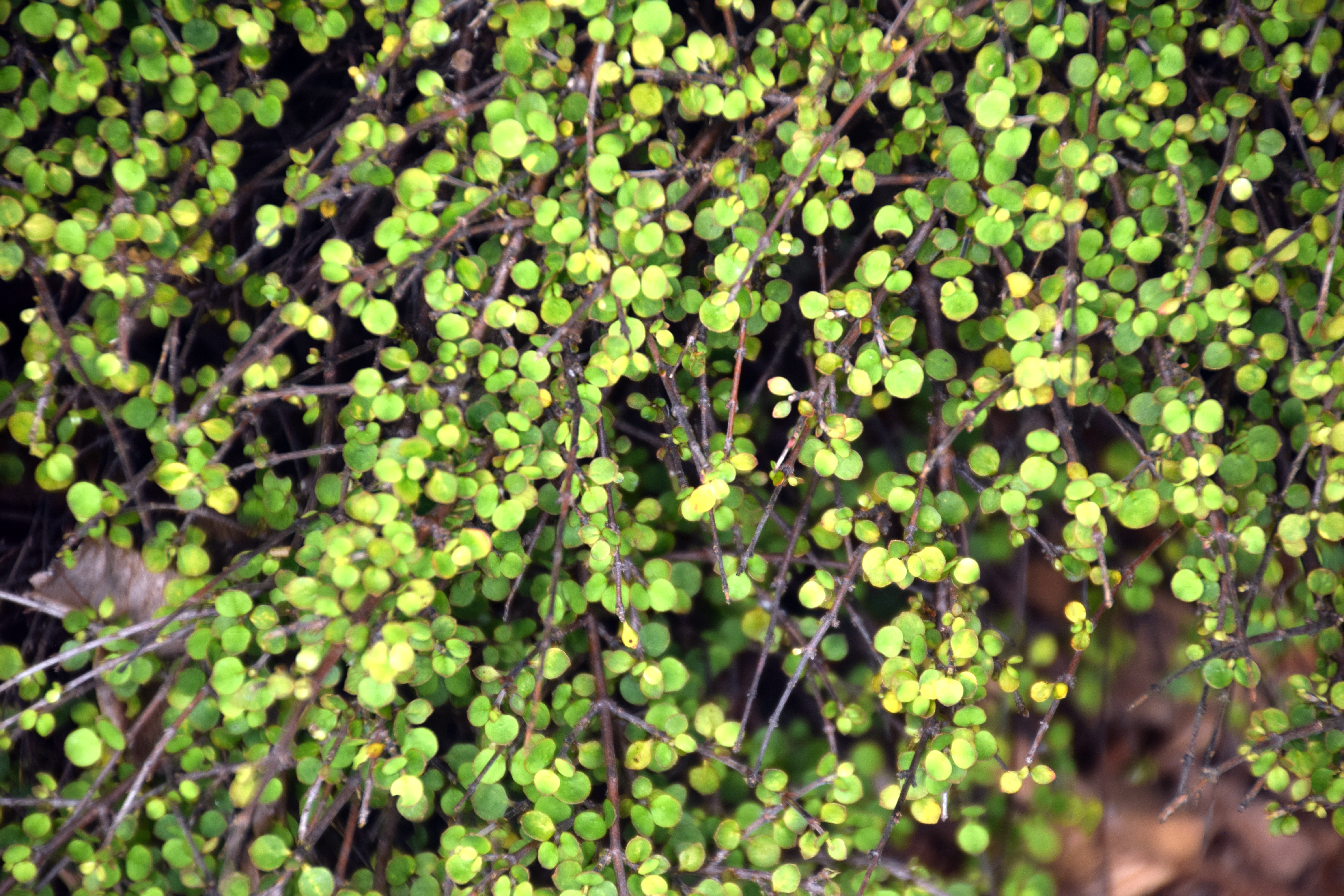 Coprosma rhamnoides in Auckland Botanic Gardens, Manurewa, South Auckland, New Zealand